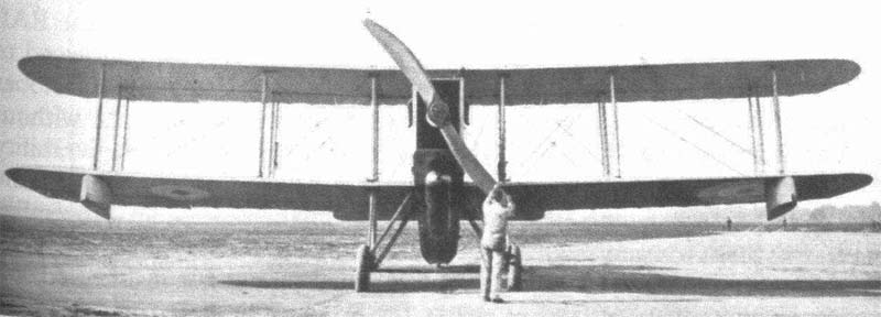 Photo of Blackburn Blackburd plane front.jpg